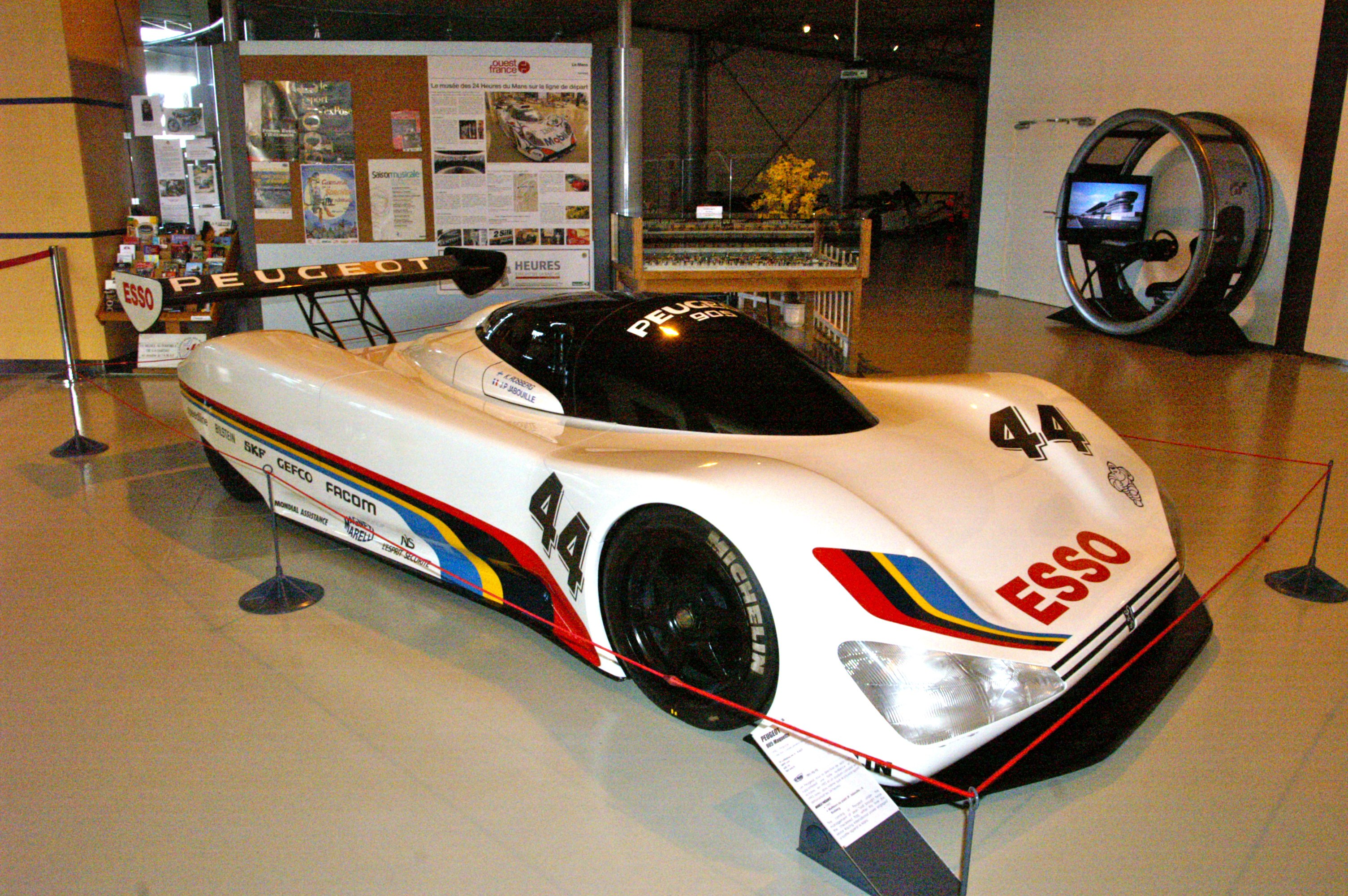 Model of the 905 n°44 which was driven in 1990 by Rosberg and Jabouille at the 480 km of Montreal (withdrawal) and at the 480 km of Mexico (13th). The real car had cooling vents above the front fenders and an air intake above the driver compartment.